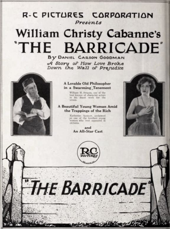 Advertisement for the American drama film The Barricade (1921) with William H. Strauss (1885 – 1943) and Katherine Spencer, on page 4 of the October 15, 1921 Exhibitors Herald.